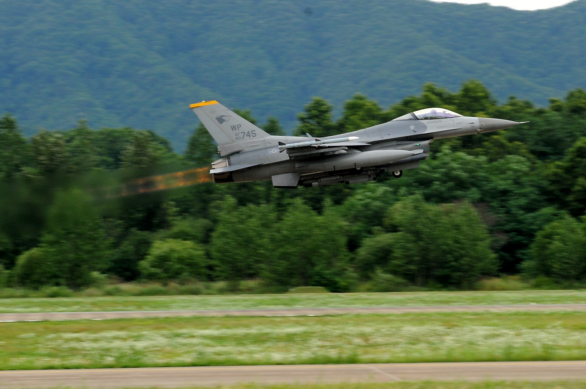 An F-16 Fighting Falcon takes off during Buddy Wing 15-6 at Jungwon Air Base, Republic of Korea, July 8, 2015. Buddy Wing is part of a combined fighter exchange program designed to improve interoperability between U.S. Air Force and ROKAF fighter squadrons and are conducted multiple times throughout the year in order to promote cultural awareness and sharpen combined combat capabilities. (U.S. Air Force photo by Senior Airman Divine Cox/Released)